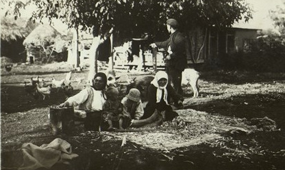 Cleaning of haricot beans, 1920 - 1930 in Bulgaria